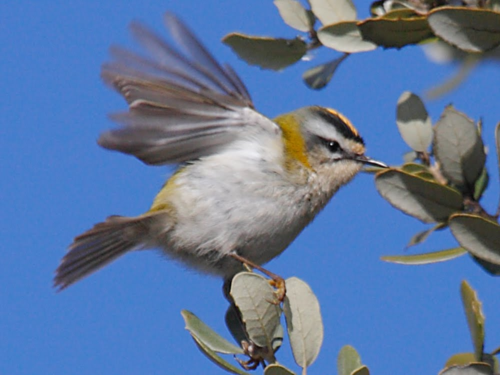 Firecrest